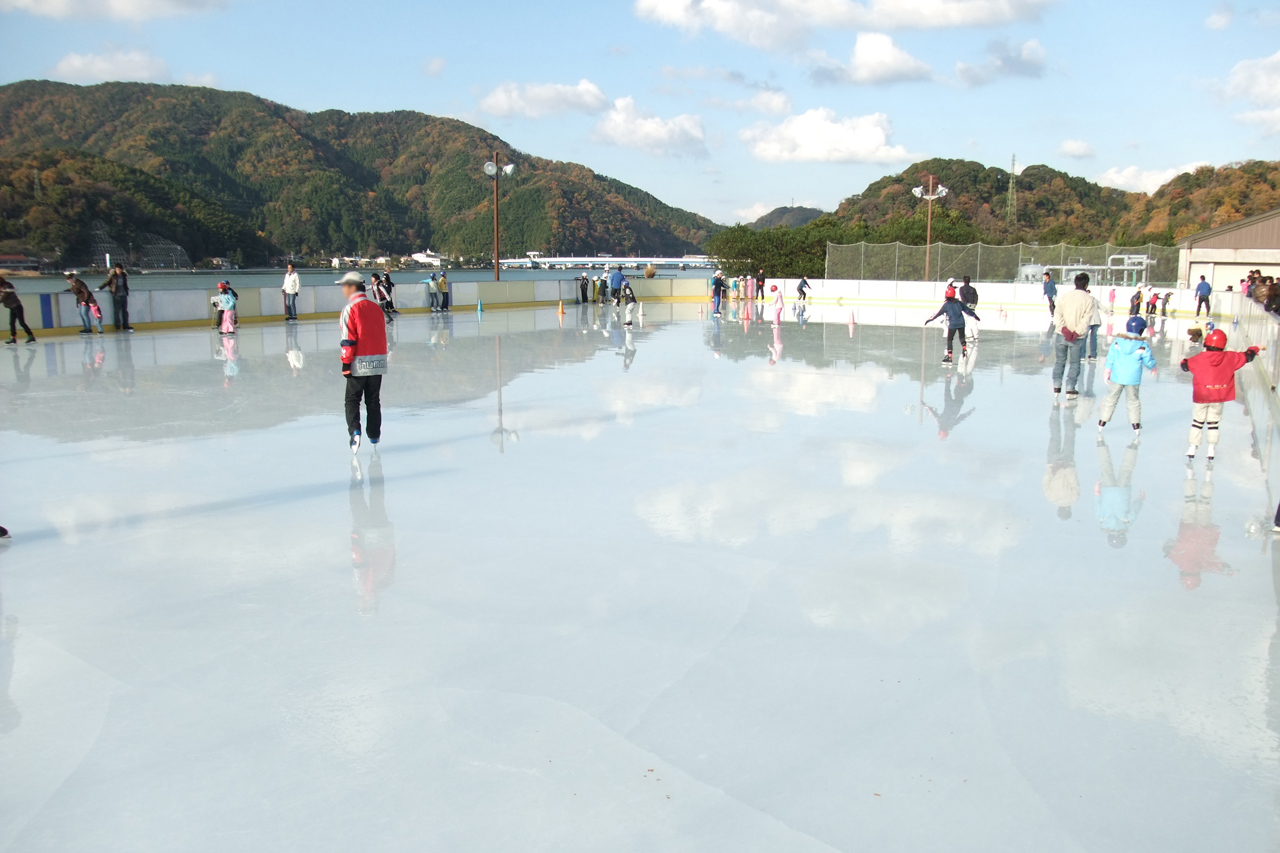 Hyogo prefectural Maruyamagawa park.2009